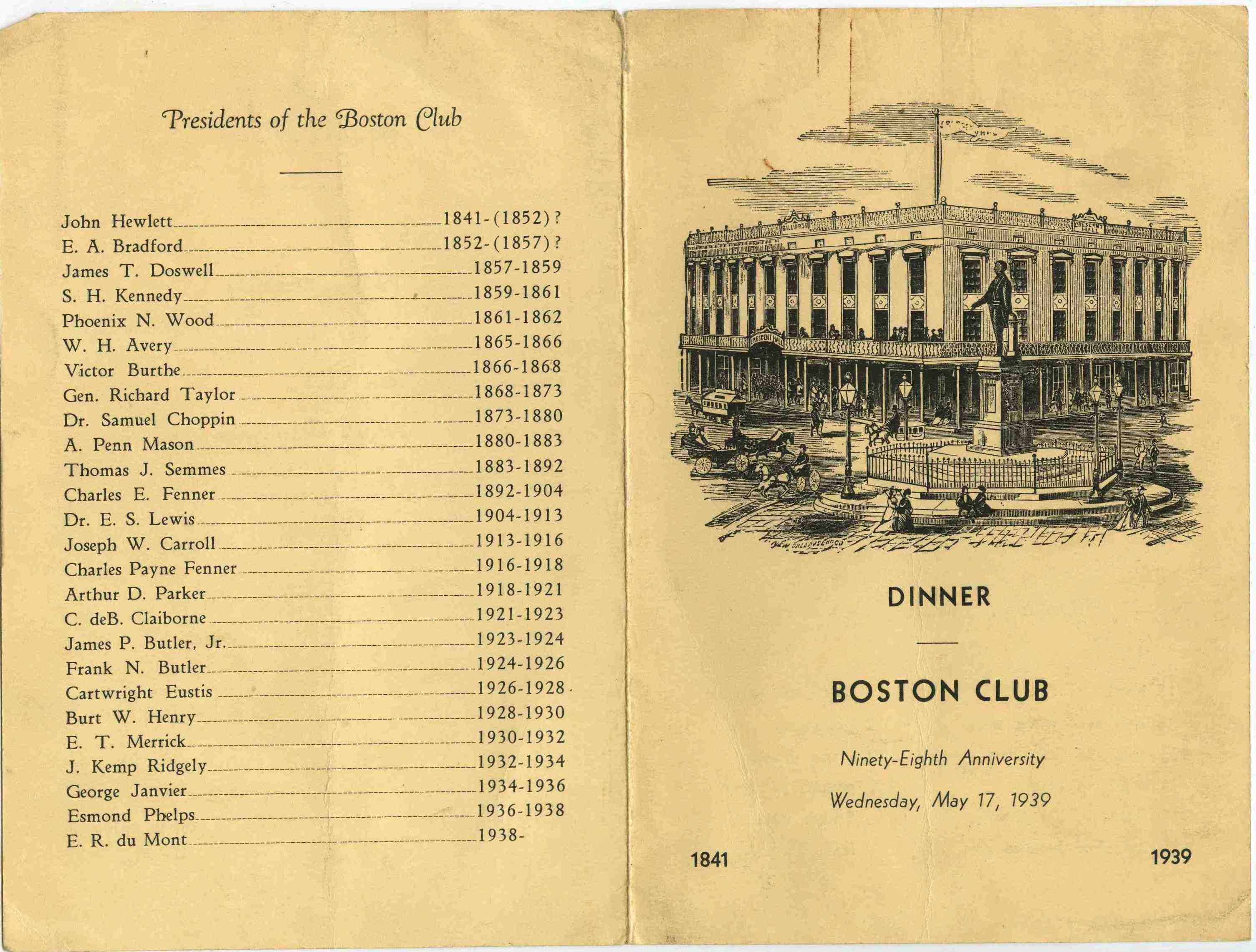 Boston Club dinner menu, 1939, New Orleans. Includes illustration of building at Canal & St. Charles as it was before 1900.